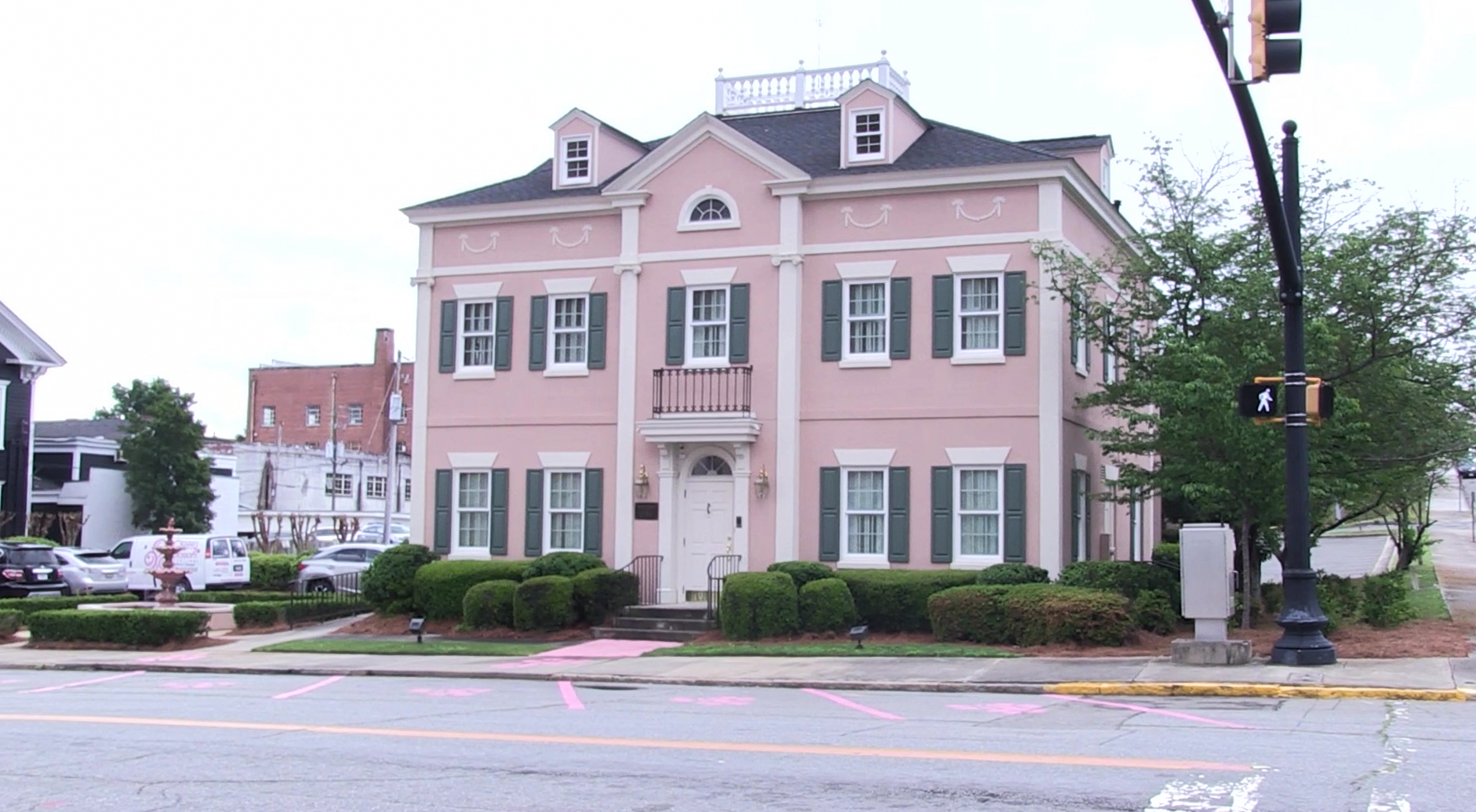 Cherry Blossom Festival Headquarters in Macon, Georgia